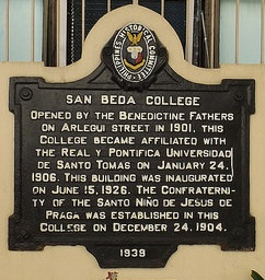 Original Historical Marker